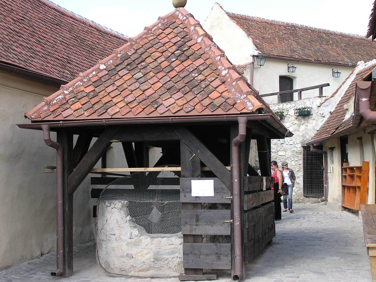 The well in Râşnov's citadel